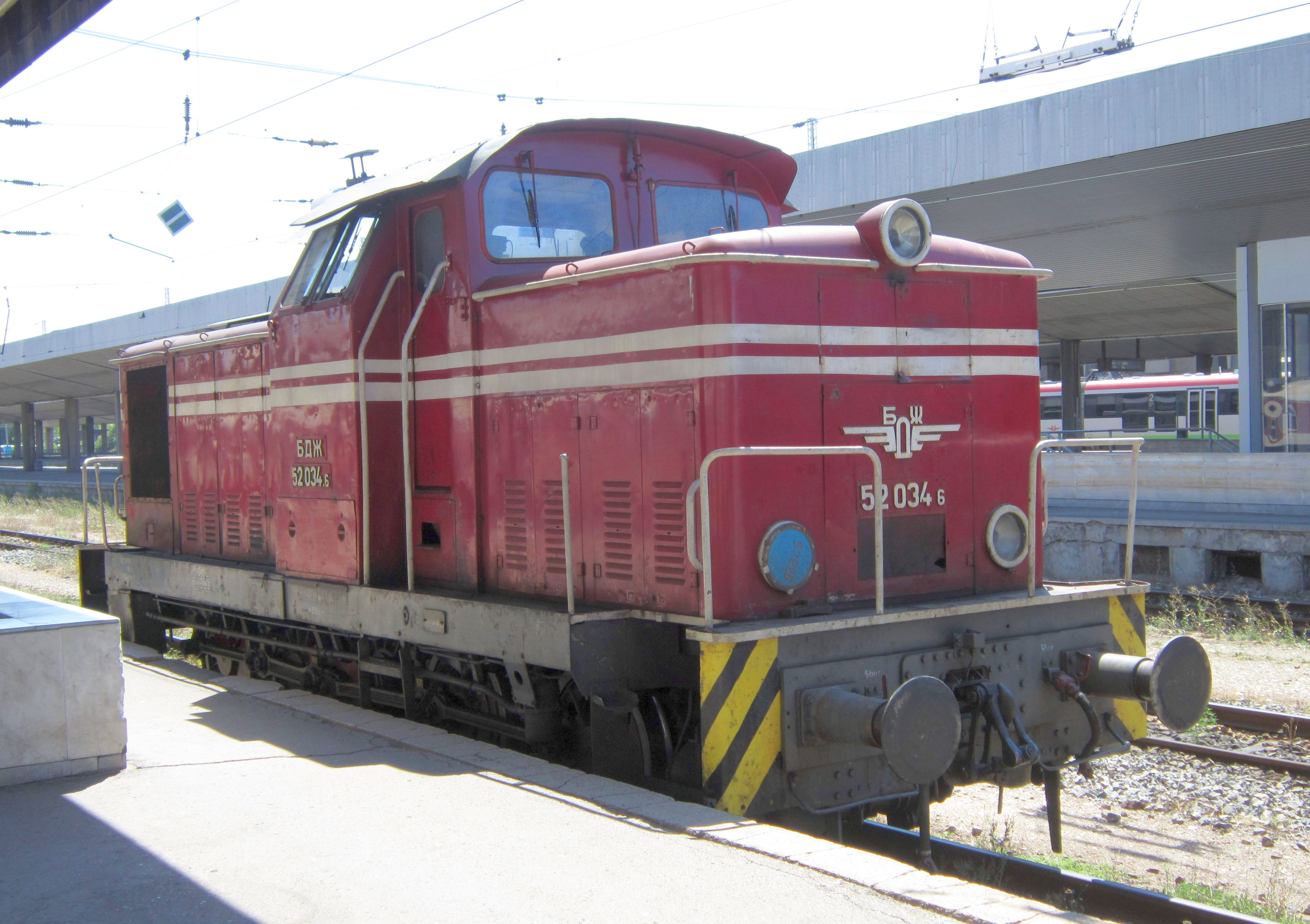 Bulgarian State Railways unit 52 034 at Sofia Central Station